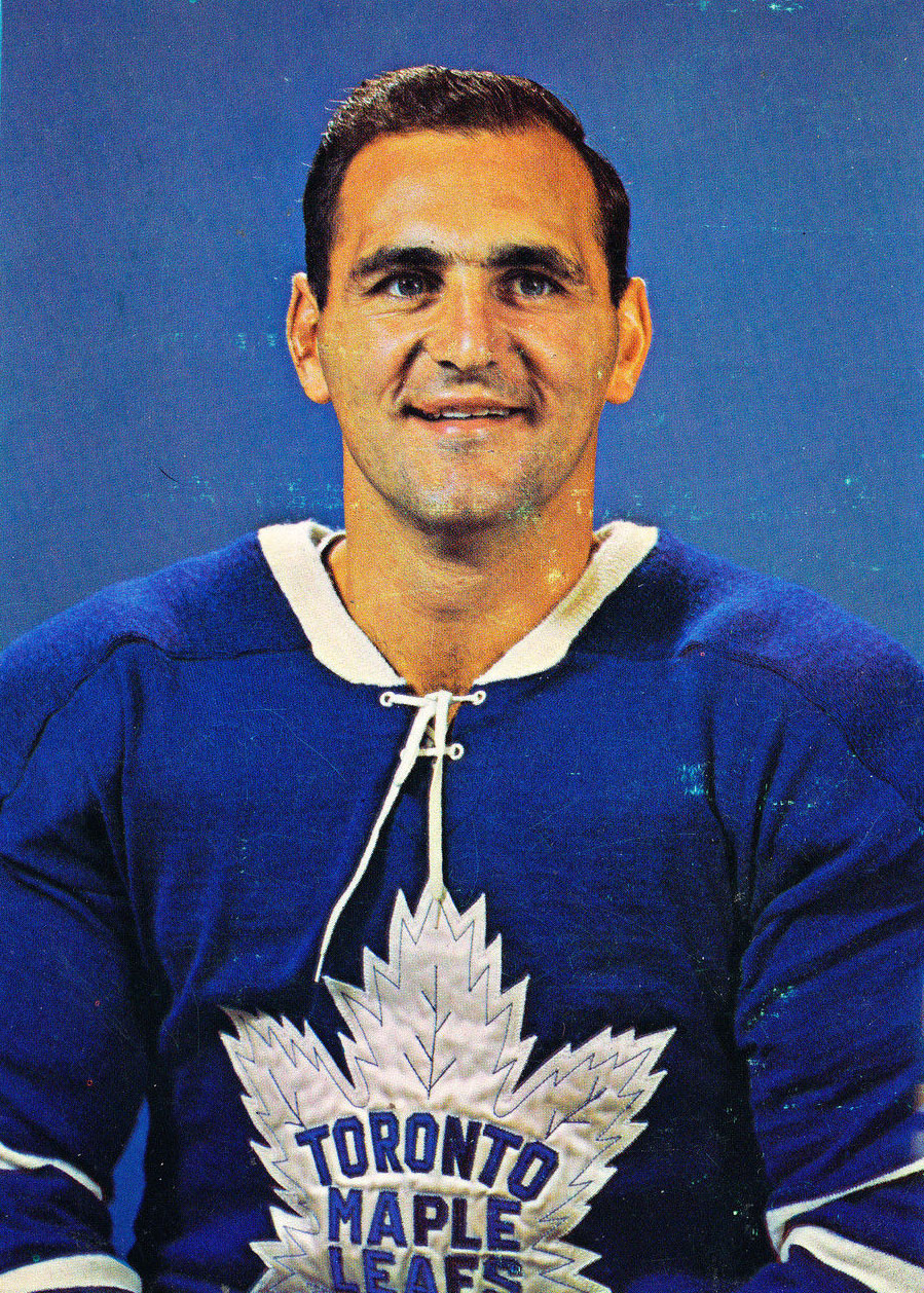 Trading card photo of Bob Baun. These cards were printed on the backs of Chex cereal boxes in the US and Canada from 1963 to 1965. Those collecting the cards cut them from the back of the boxes. Baun's card at PSA.